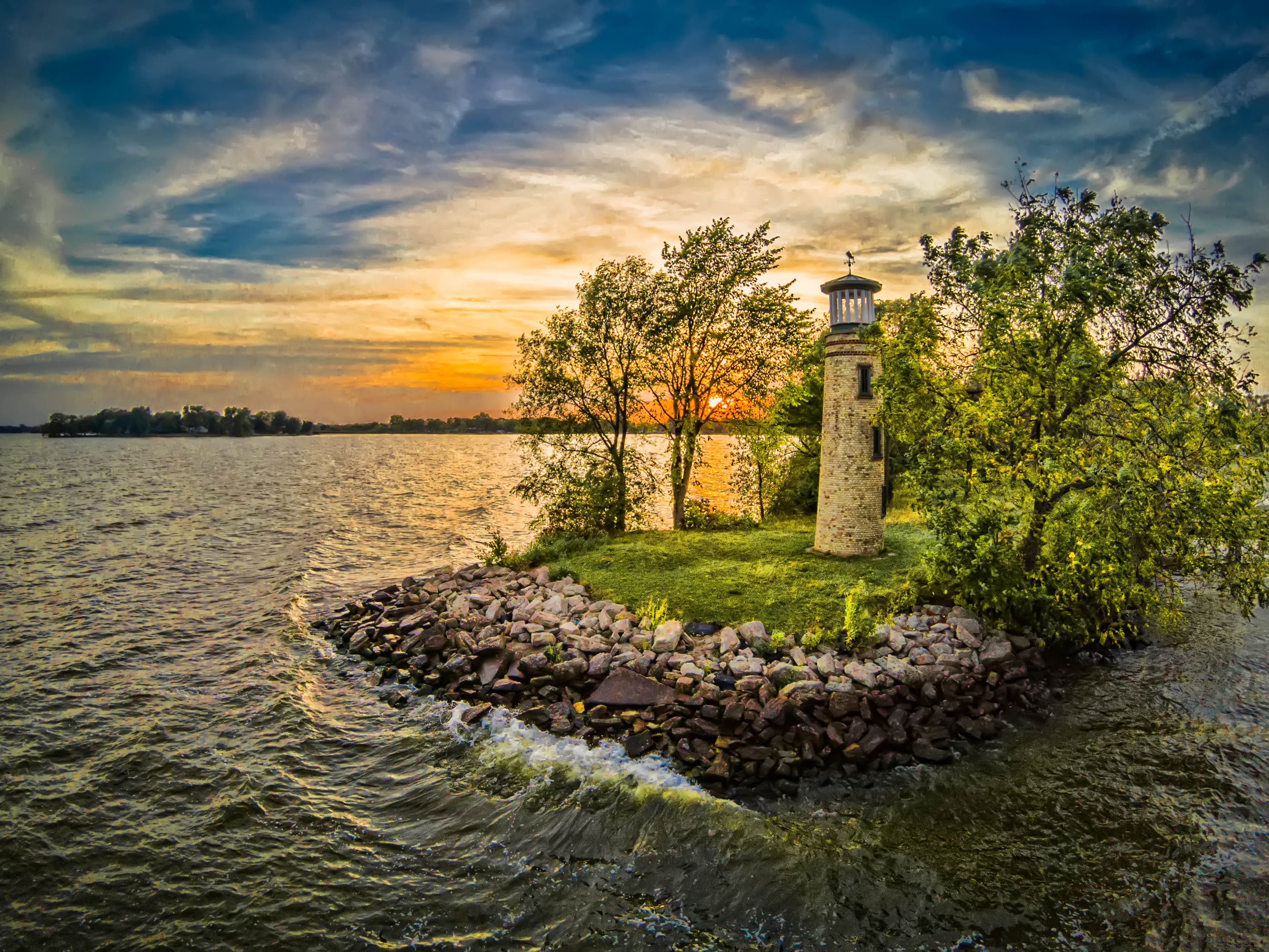 Sunset at the Asylum Lighthouse on Lake Winnebago.